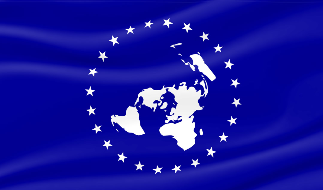 Flag of Unrepresented United Nations